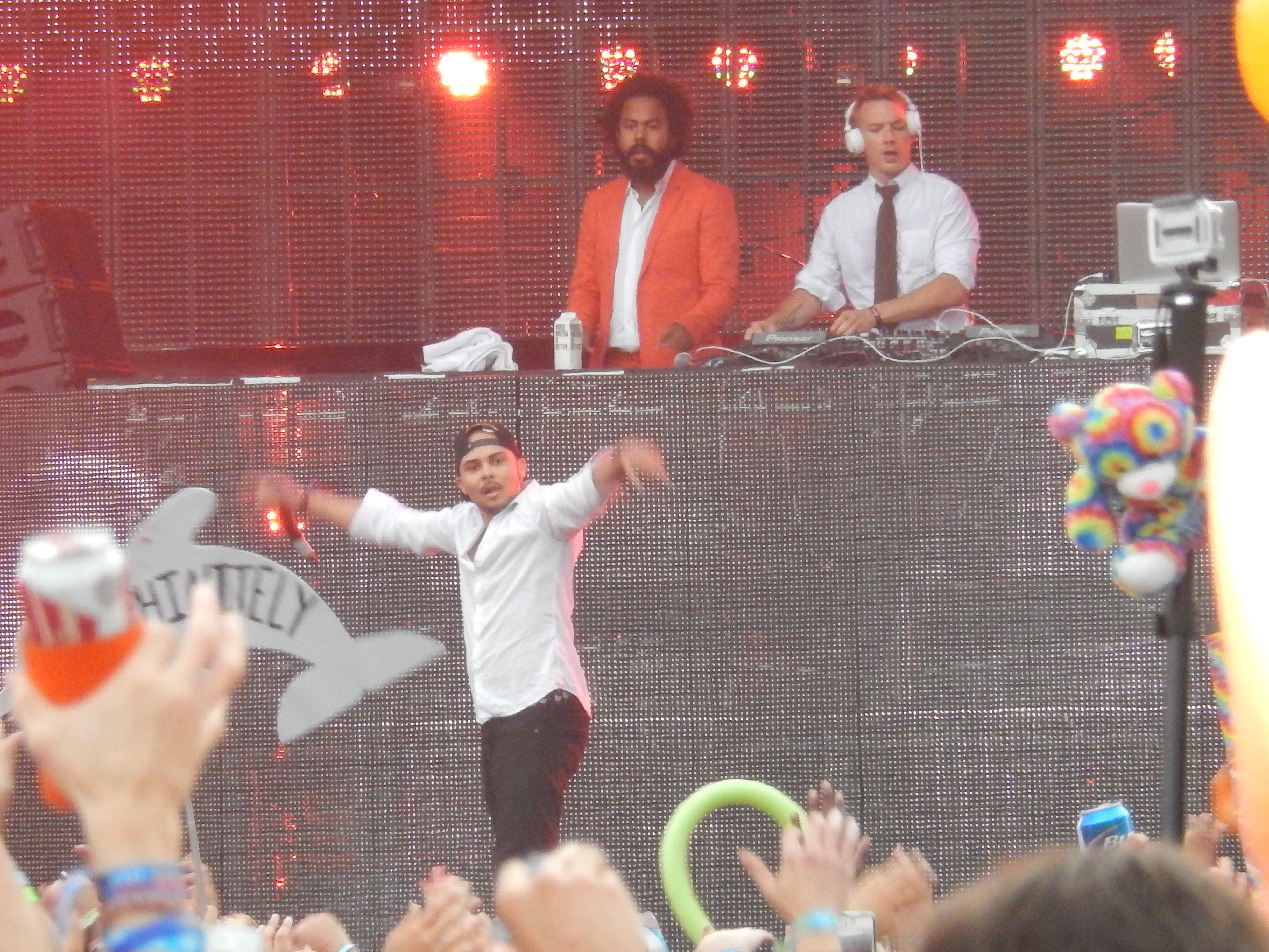 Major Lazer live at Lollapalooza 2013